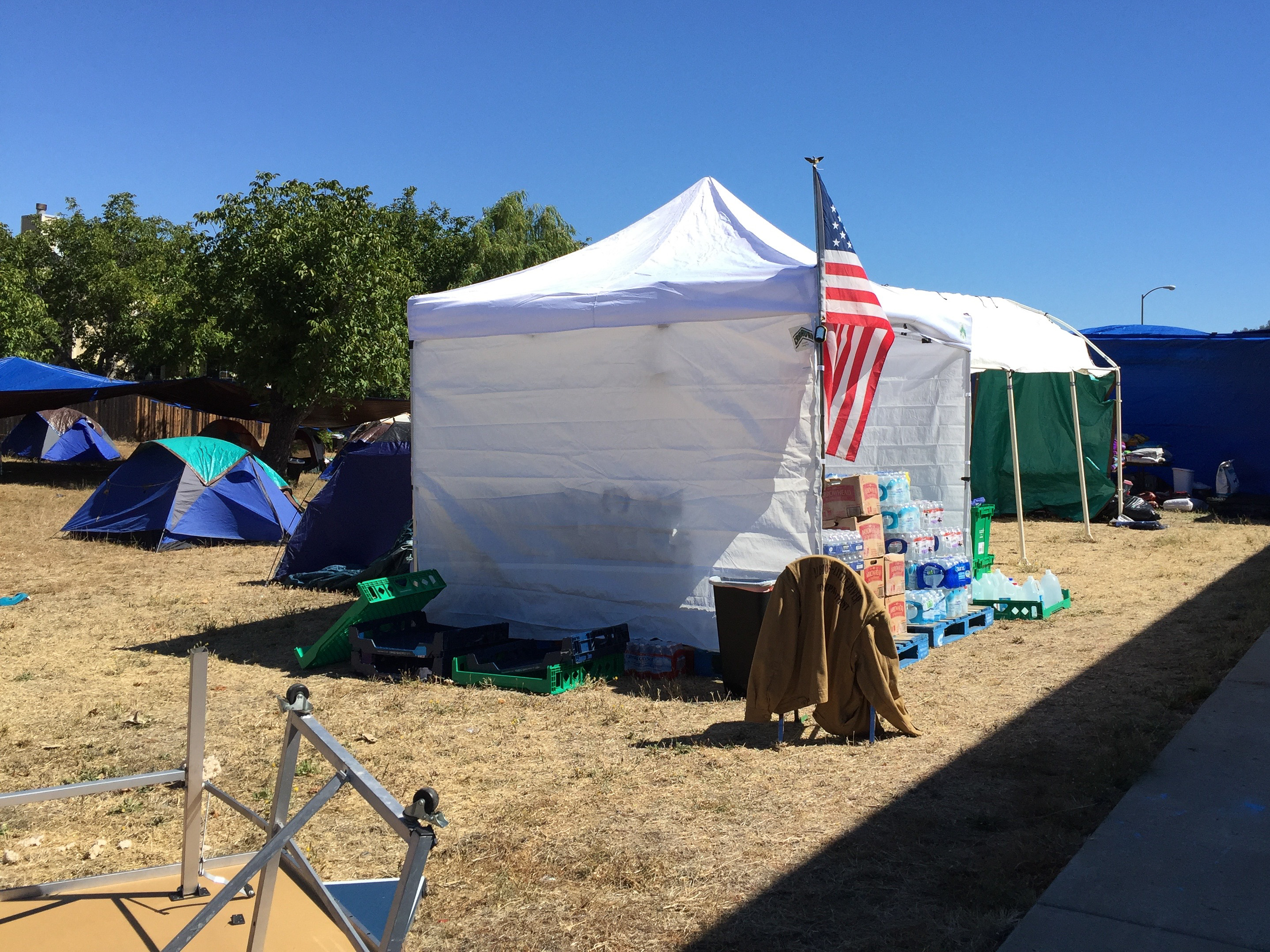 Valley Fire evacuation center in Clearlake, Lake County (Highland Senior Center 3245 Bowers Center)